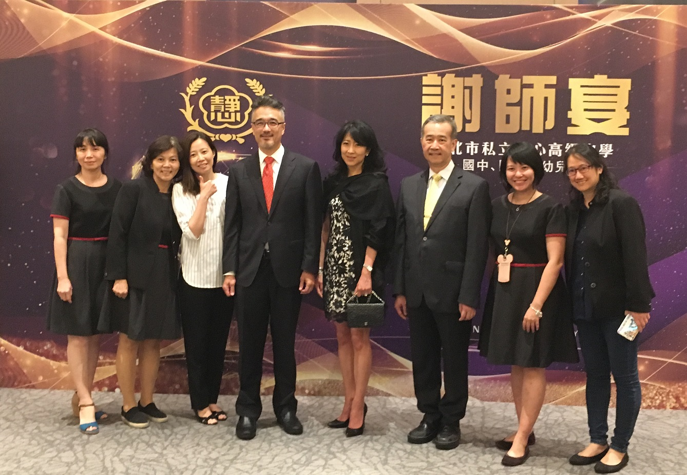 2019 Chingshin Teacher Appreciaiton Banquet at Le Meridien Taipei